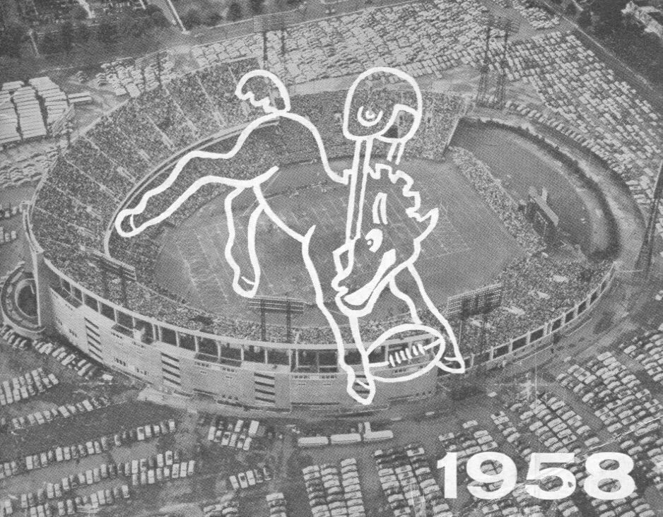 Memorial Stadium in Baltimore, Maryland